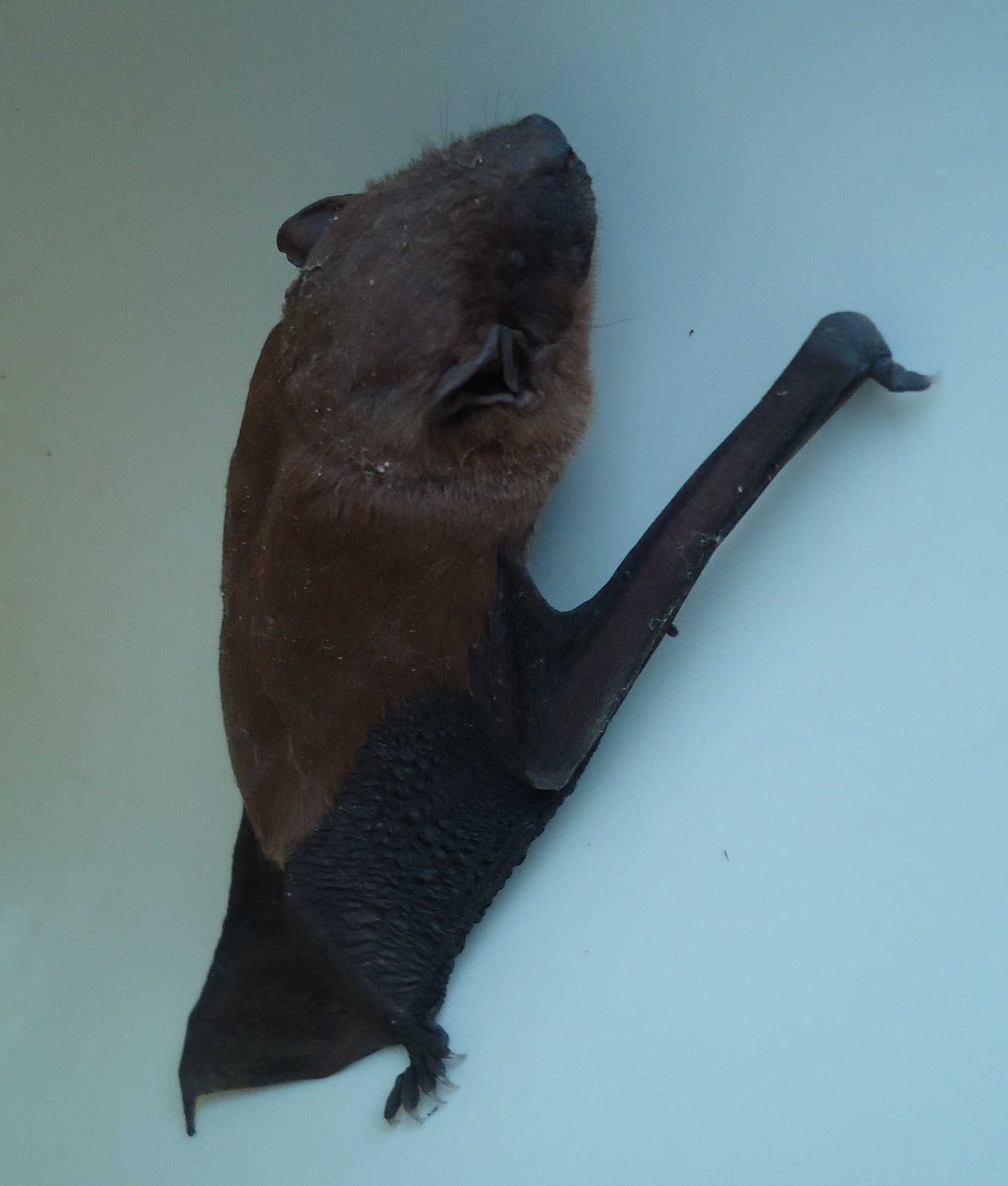 The Lesser Asiatic Yellow Bat (Scotophilus kuhlii) from Bukidnon, Philippines. A vesper bat commonly found roosting in eaves and rafters of houses and other human structures.